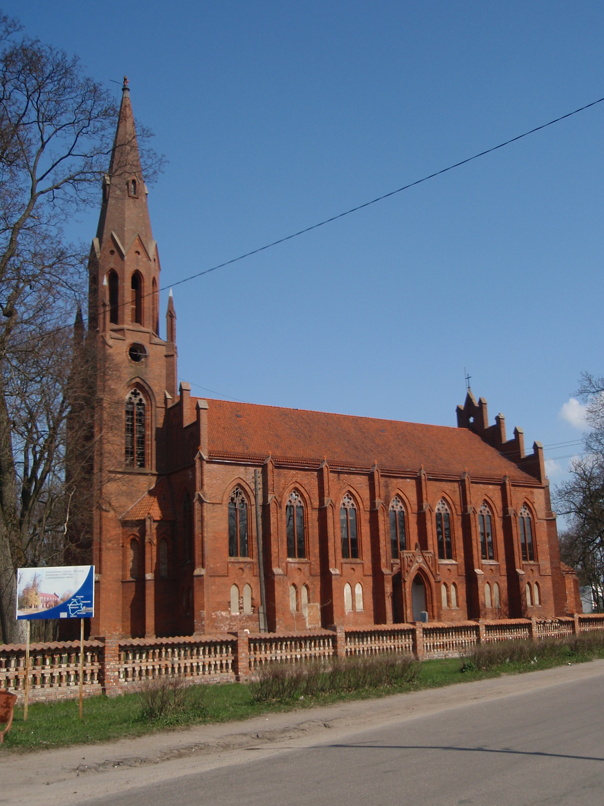 Church in Slawsk Heinrichswalde in Oblast Kaliningrad